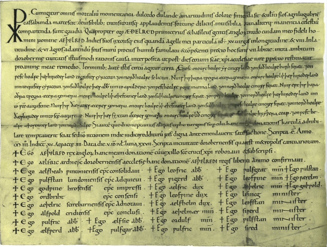 A charter of King Æthelred II to "his faithful man" Æthelred, in 1003. British Library MS Stowe Ch. 35. S 905.